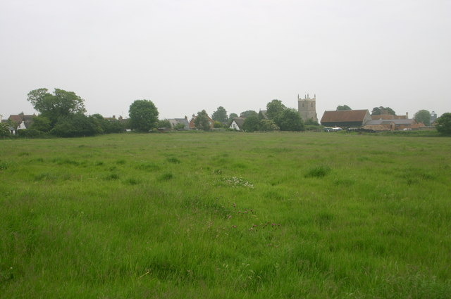 Marsh Gibbon Church from the Bernwood Way Marsh Gibbon Church across the fields from the Bernwood Way